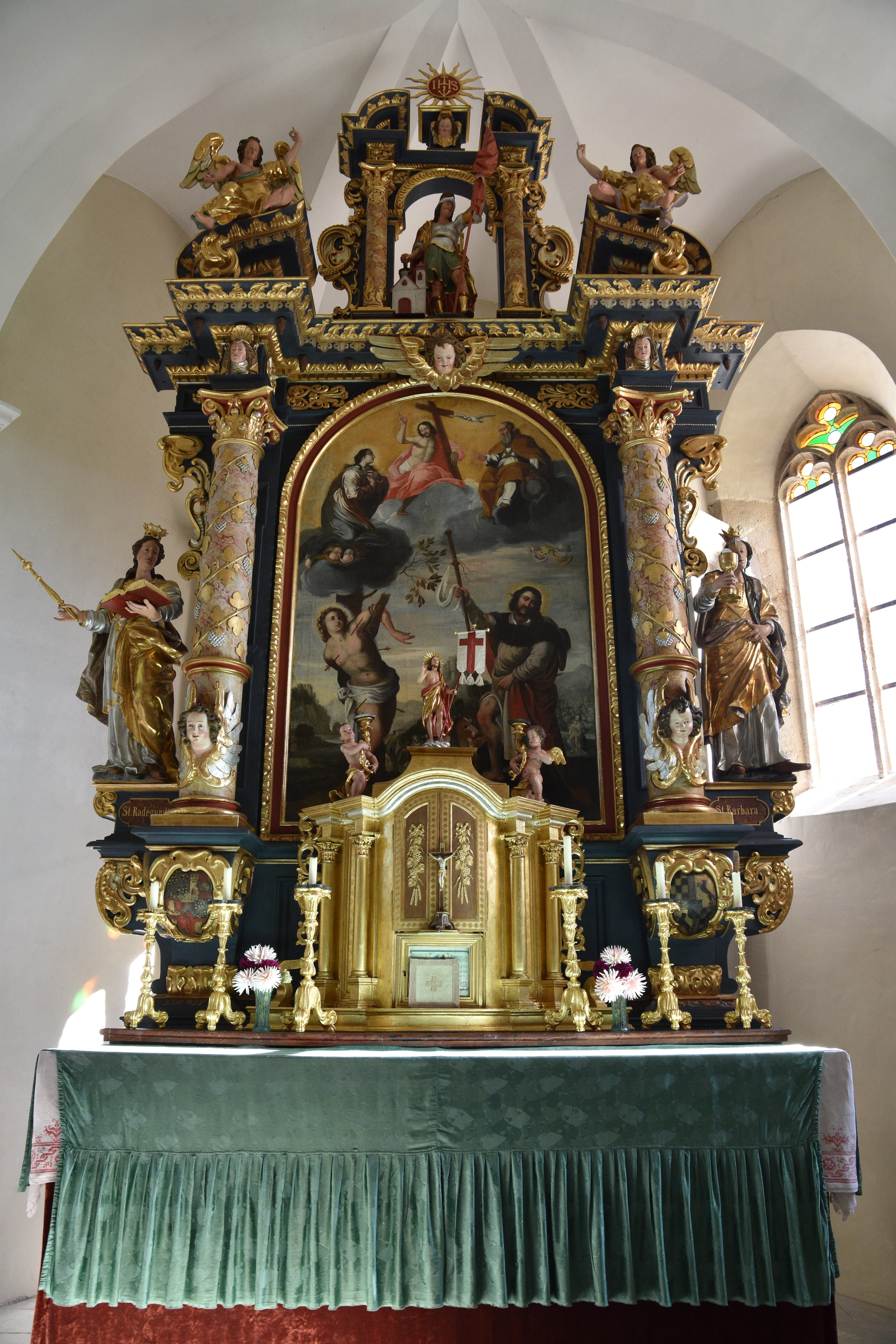 Church Rochus und Sebastian Blaindorf Feistritztal Interior